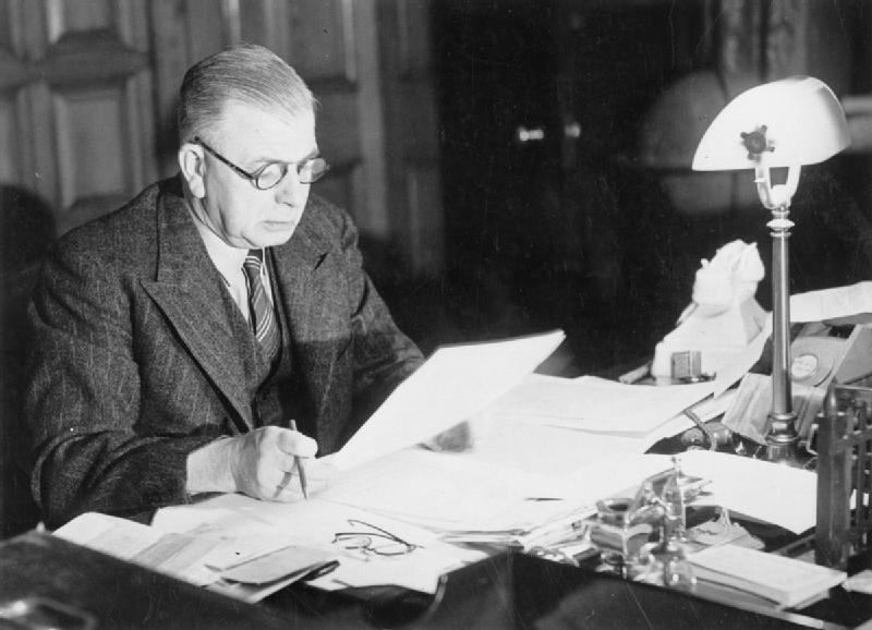 British Political Personalities 1936-1945 The Churchill Coalition Government 11 May 1940 - 23 May 1945: A V Alexander, First Lord of the Admiralty from May 1940 to the end of the war, seated at his desk at the Admiralty.